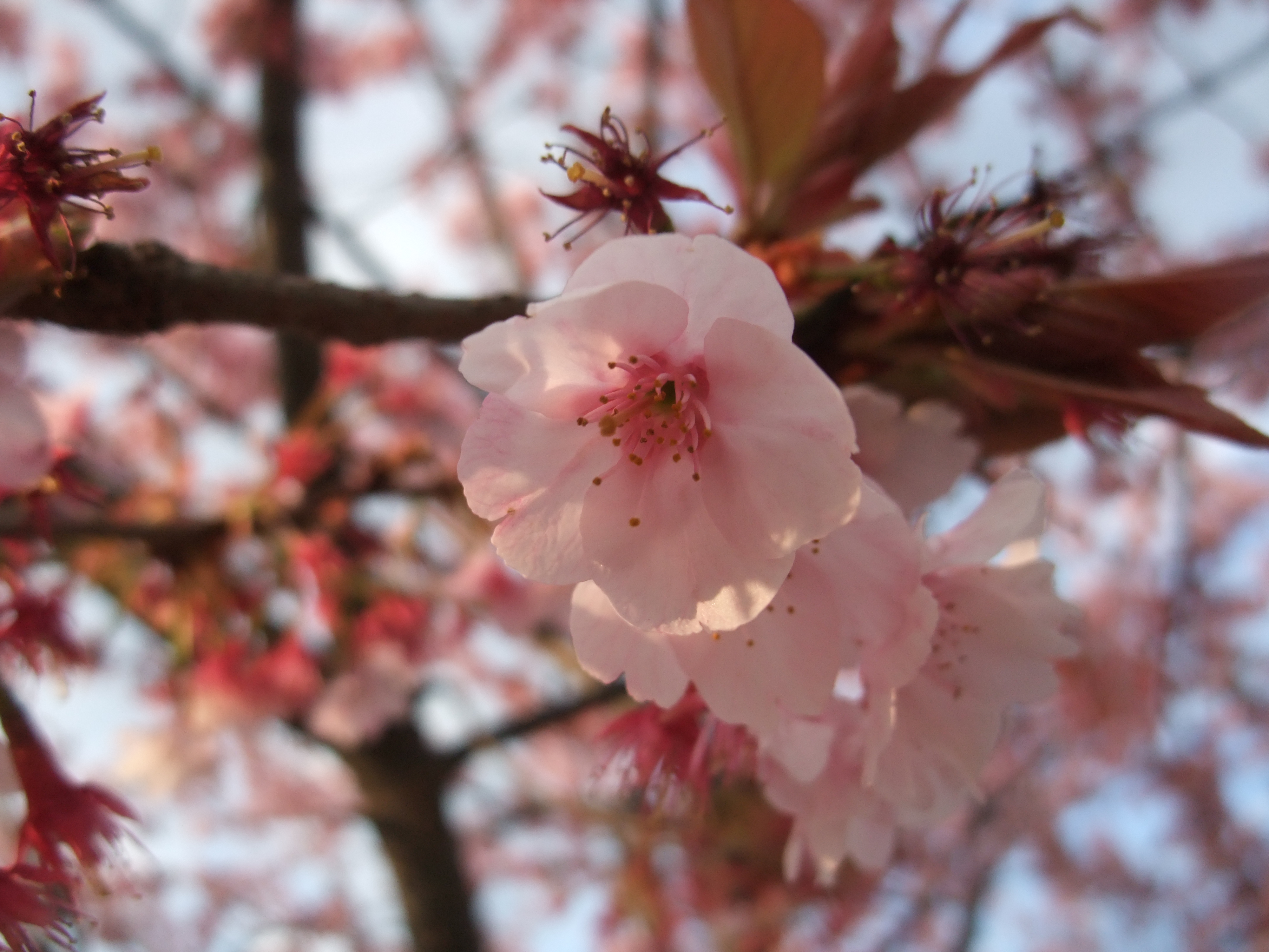 Hachisuka-sakura's flower